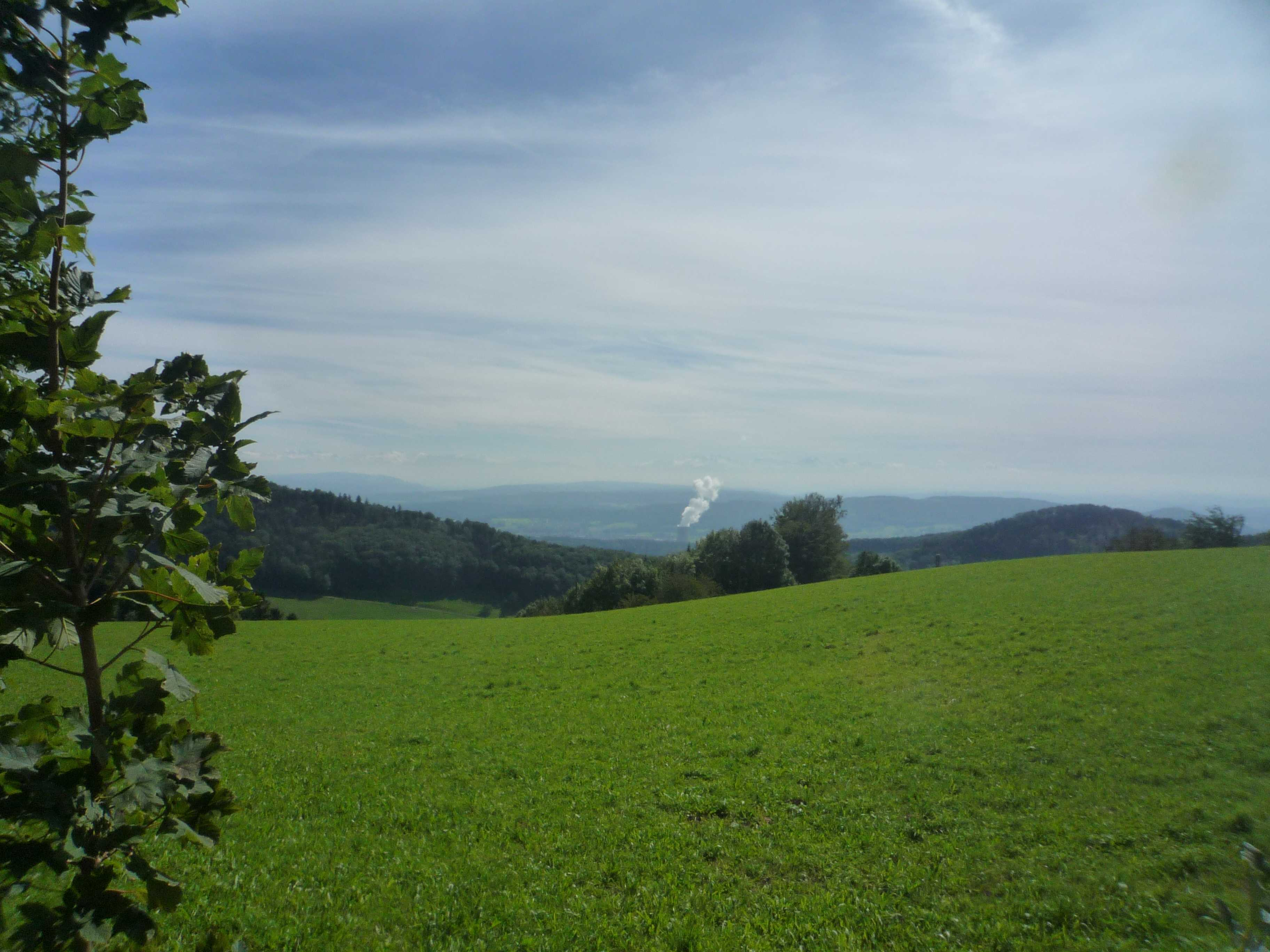 Countryside outside Anwil, Basel-Land, Switzerland